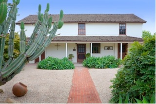 Housed in the historic two-story adobe built by Pascual Botillier in 1843.